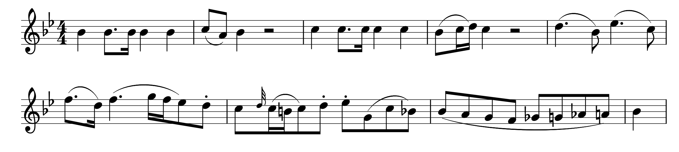 First eight measures, first violins, first movement, Mozart's Piano Concerto. No. 18, K. 456.